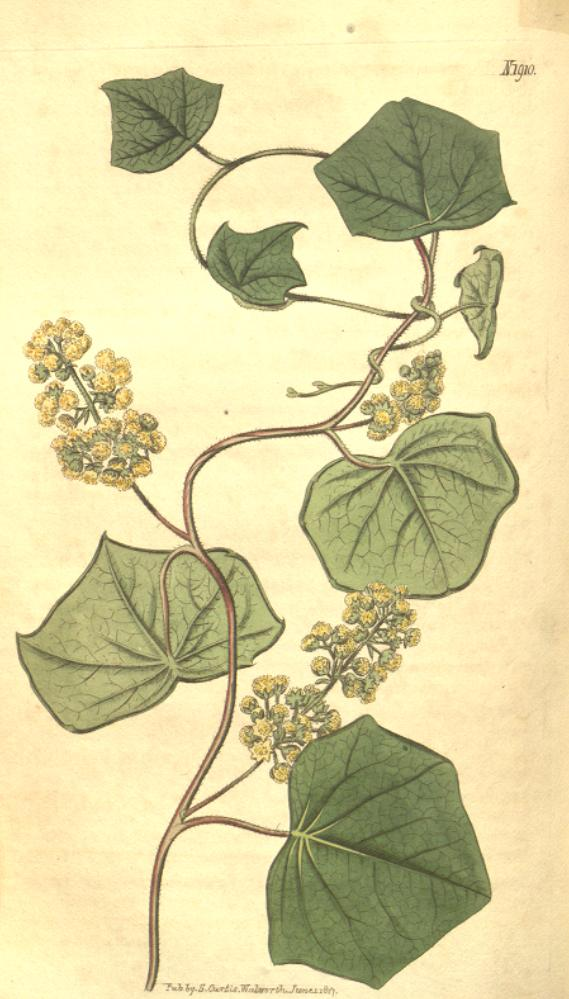 Illustration of Menispermum canadense